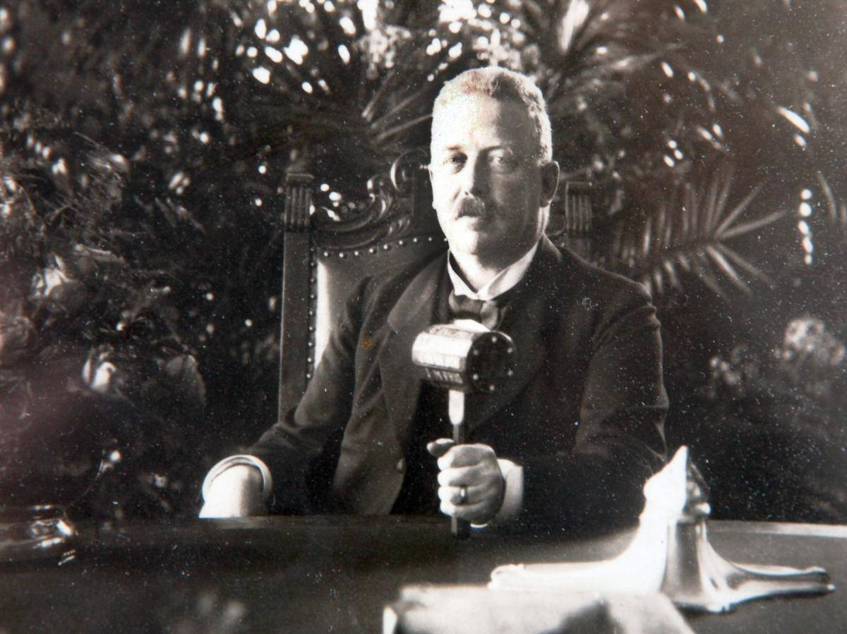 Swedish jurist and judge Oscar Cassel (1871-1931), mayor of Kalmar